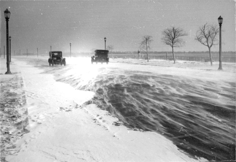 Lakeshore Boulevard during a snowstorm, Toronto, Canada